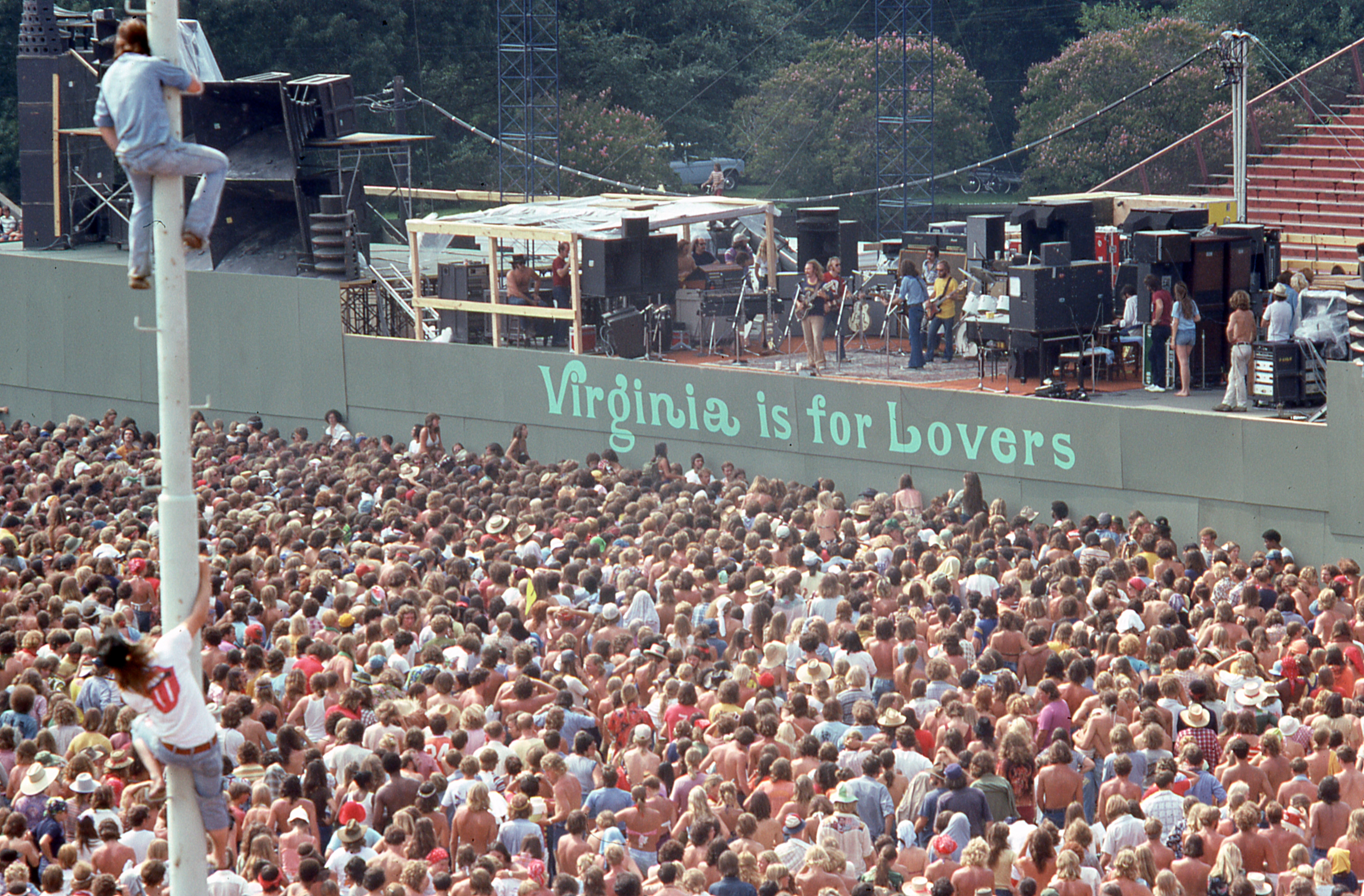 =: Crosby, Stills, Nash & Young 1974 reunion tour at Foreman Field, Old Dominion University, Norfolk VA, August 17 1974.Kodachrome 35 mm transparency taken with a Yashica TL Electro SLR camera. Scanned with an Epson Perfection V500 Photo.